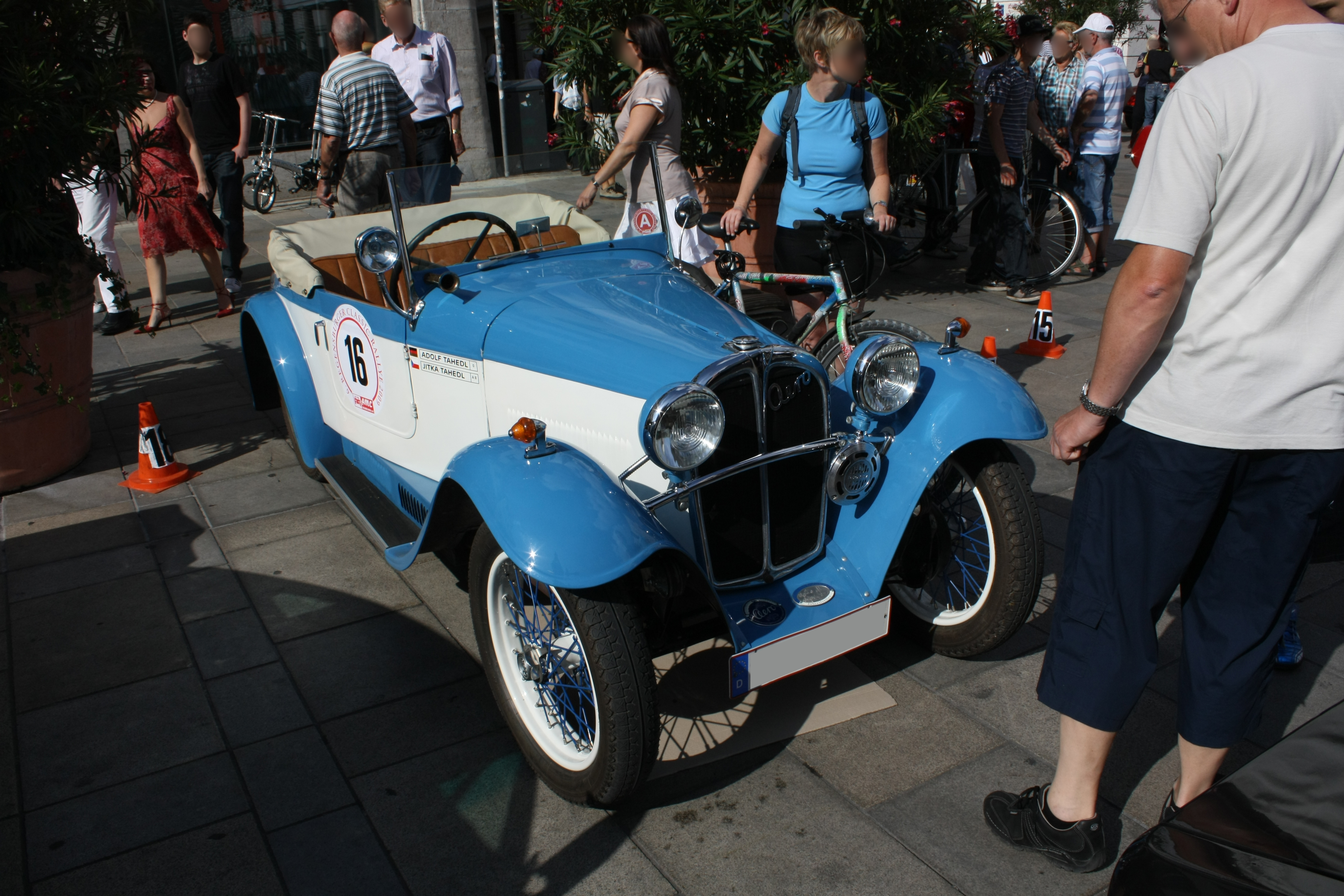 Aero 18 Roadster